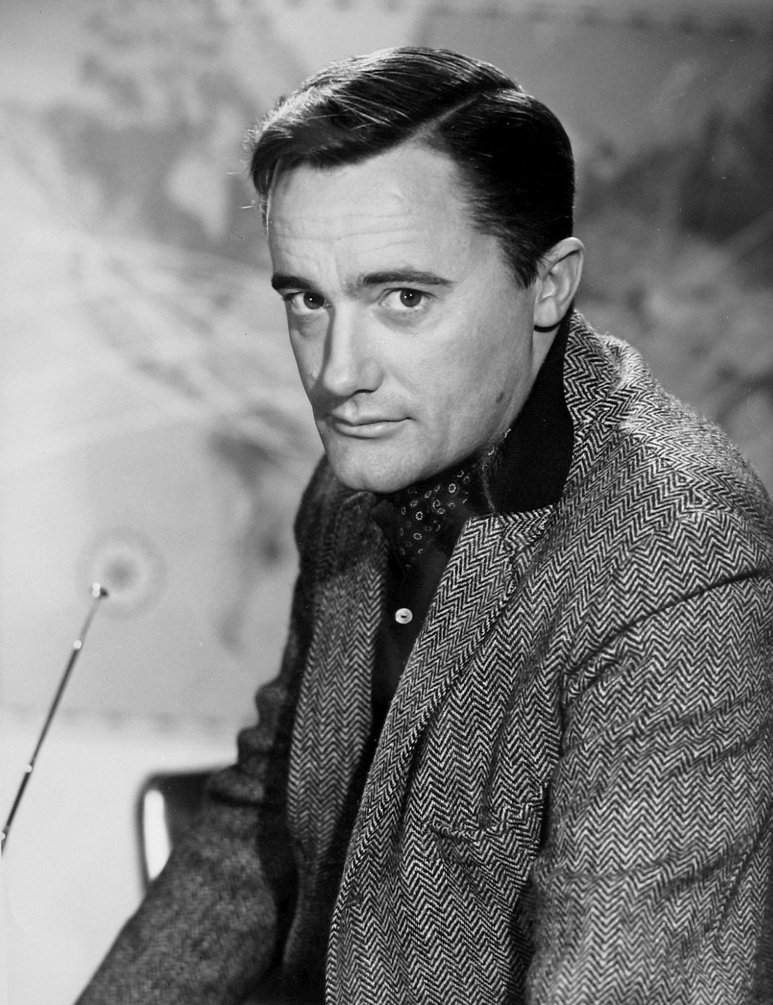 Photo of Robert Vaughn as Napoleon Solo from the television program The Man From U.N.C.L.E..